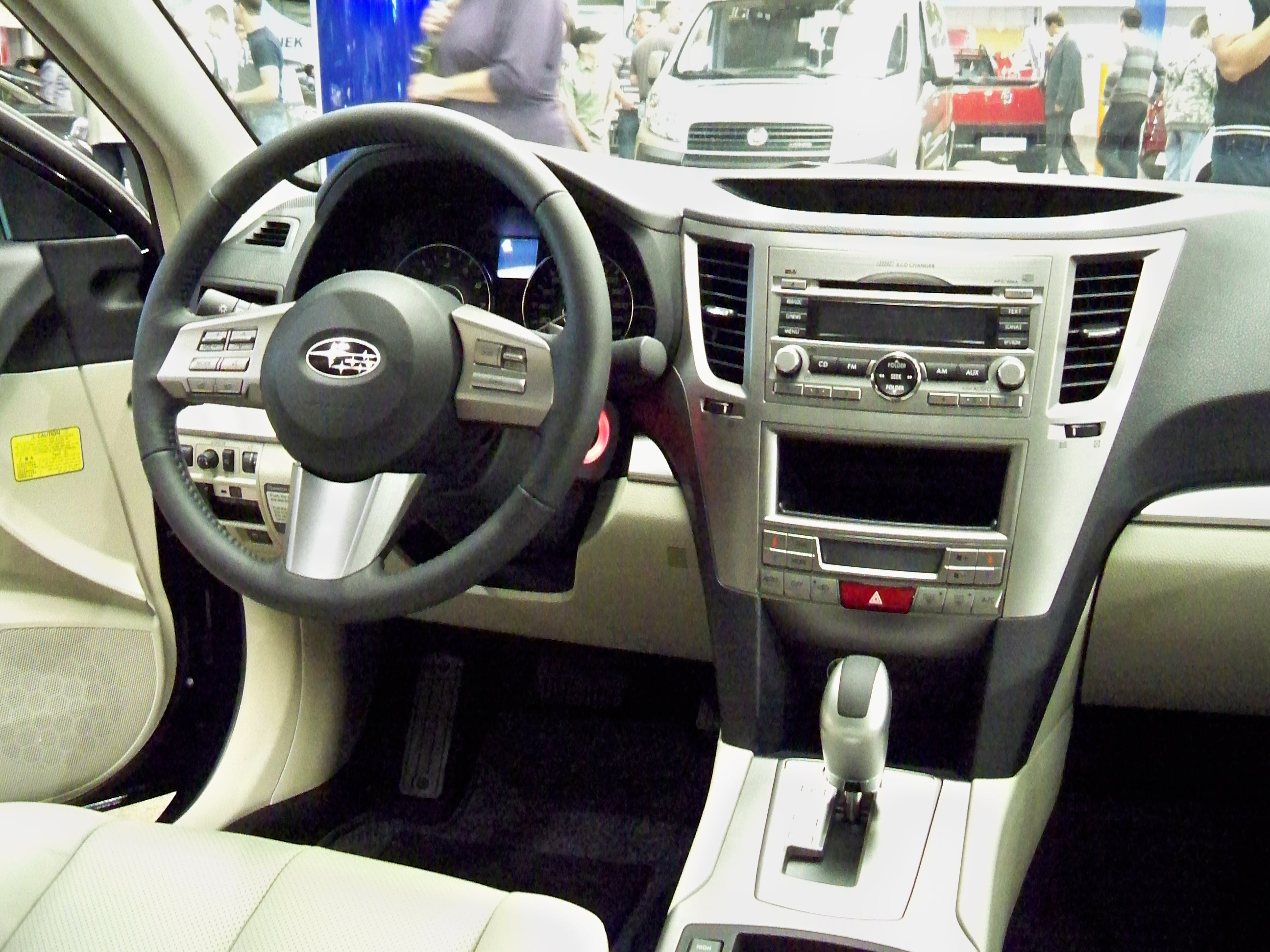 European Subaru Legacy V Sedan interior - GMS 2009 in Gdansk.